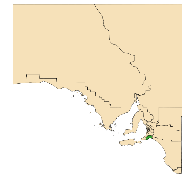 Electoral district 2018 boundaries shown in green